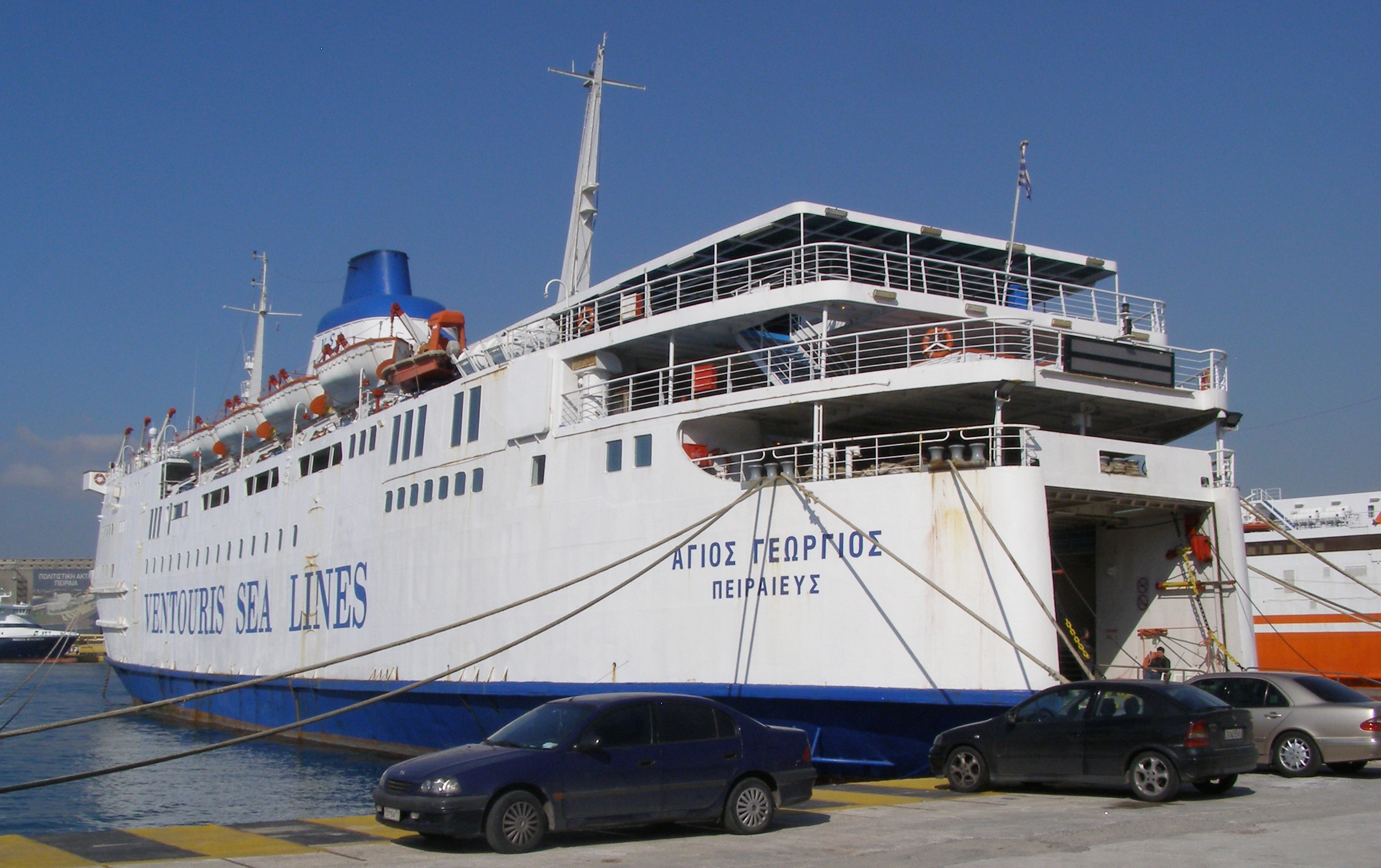 Piraeus - Agios Georgios